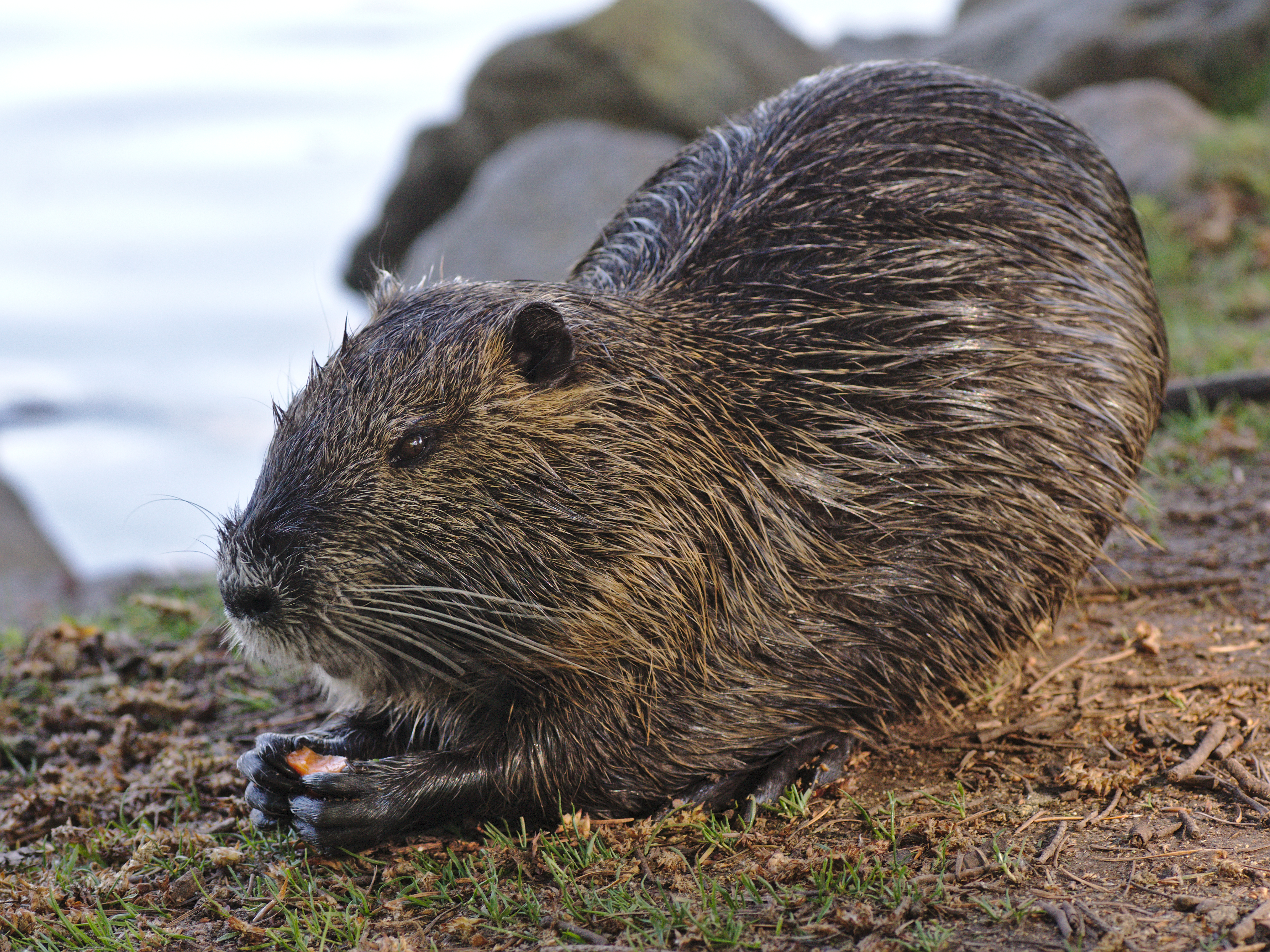 Myocastor coypus (nutria) eating a carrot at Steinbrücker Teich, Darmstadt, Germany